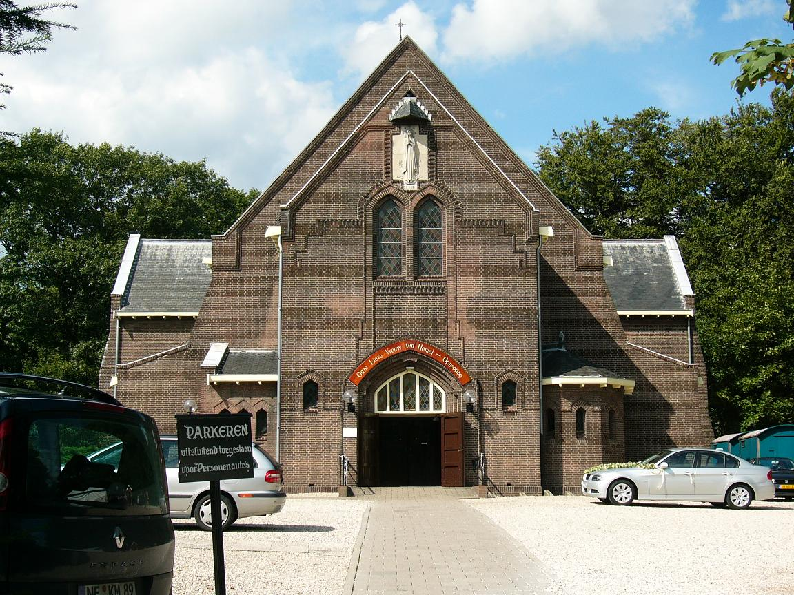 R.K. kerk in Renkum Roman Catholic church in Renkum (Gelderland, The Netherlands) Foto door Cicero